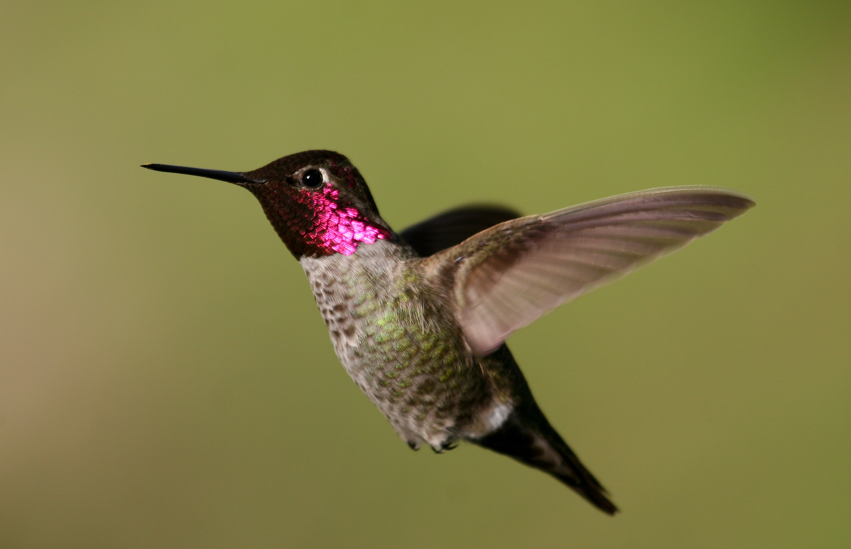 Although the most common of all California hummingbirds, Anna’s hummingbird is the only species to produce a song.